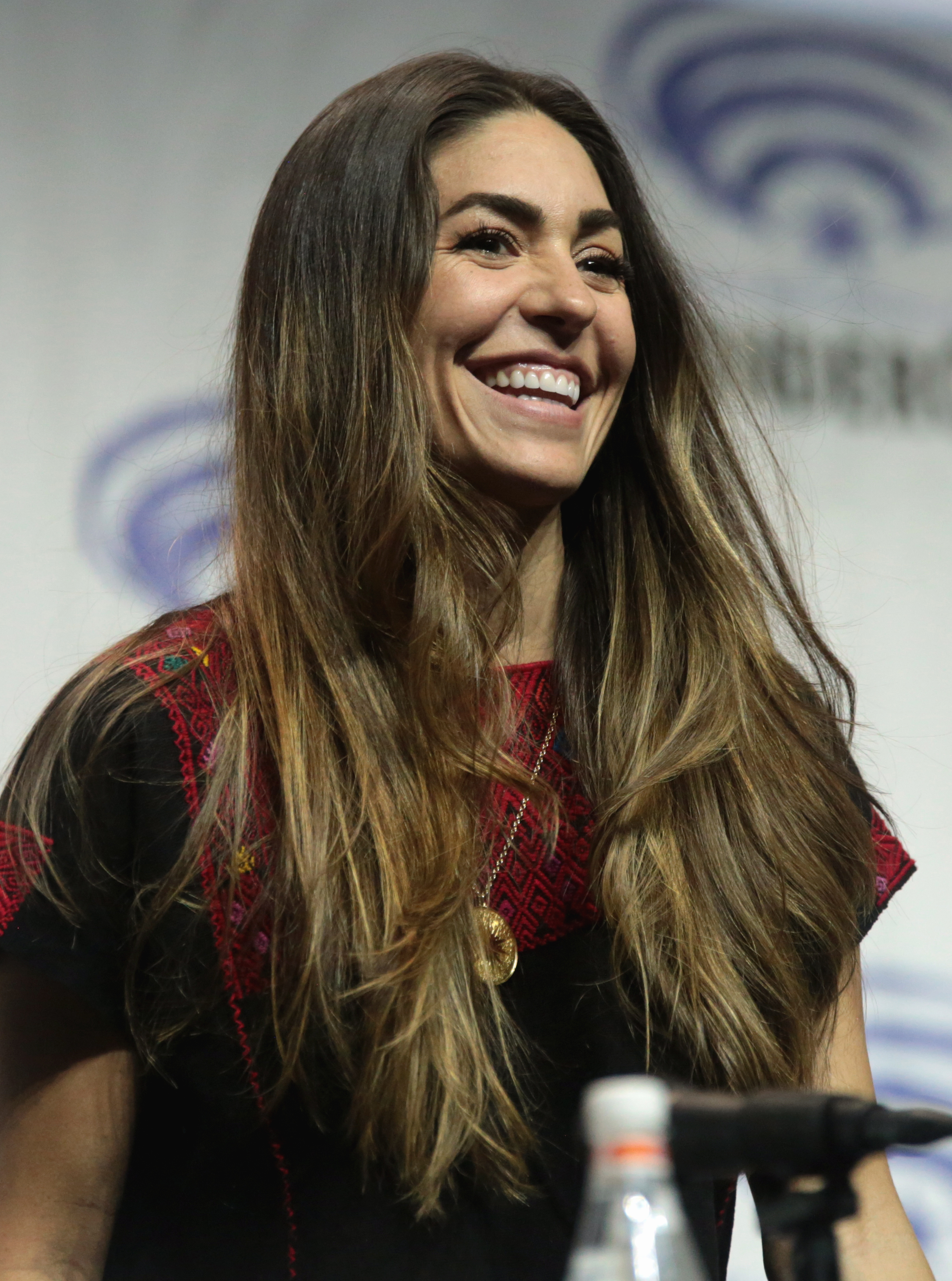 Natalia Cordova-Buckley speaking at the 2018 WonderCon in Anaheim, California.